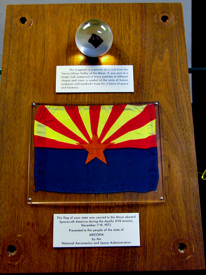 In the collection of the University of Arizona Mineral Museum Photo by Kenny Don